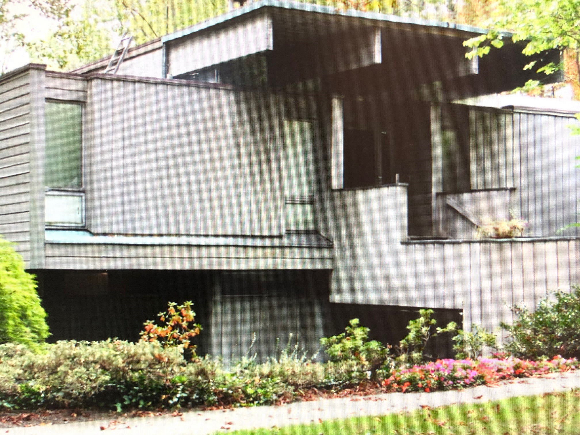 Ferdinand Gottlieb's design of the Saul Victor residence, Fieldston, Riverdale, New York.